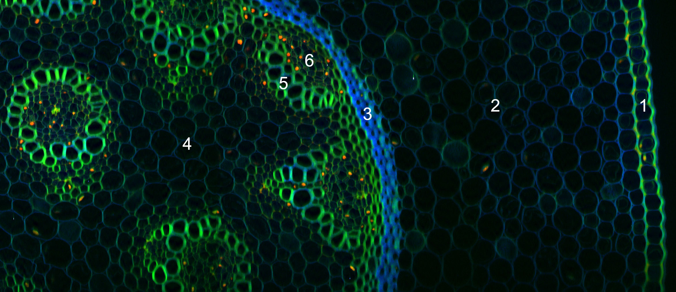 Cross section through Convallaria rhizome, fluorescent staining